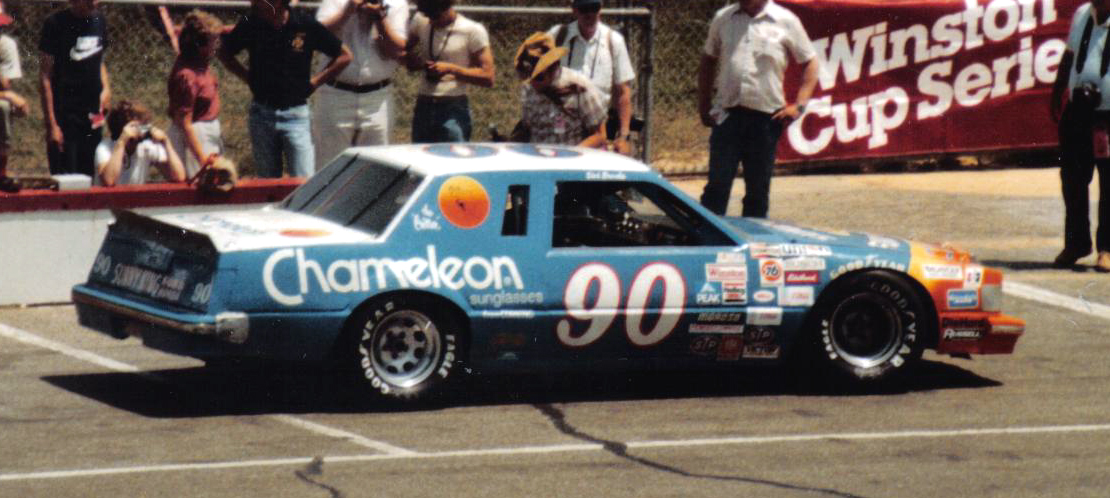 The Junie Donlavey owned Chameleon Sunglasses Ford #90 of Dick Brooks. Brooks finished 28th after dropping out.